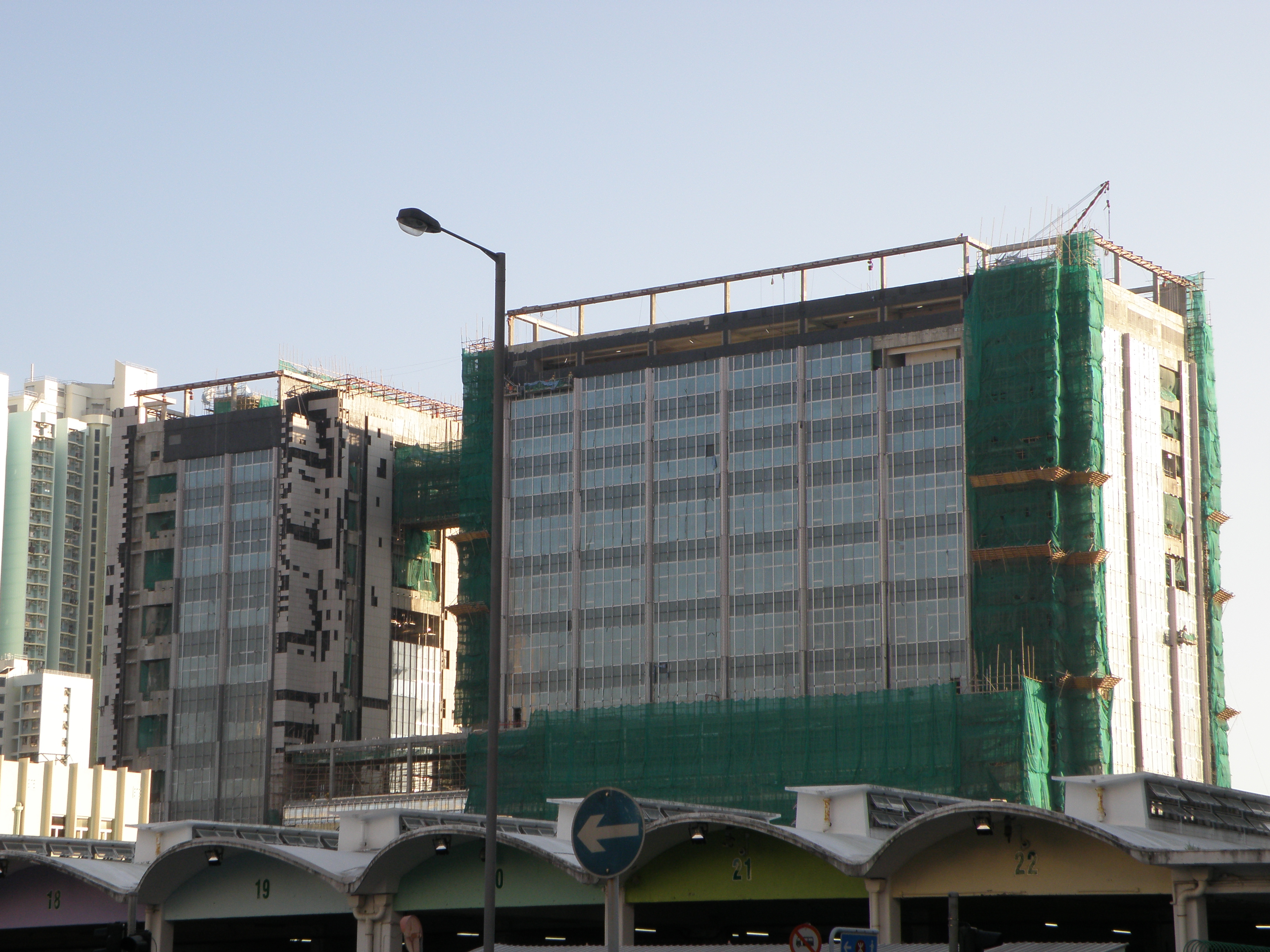 West Kowloon Law Courts Building in Cheung Sha Wan, Hong Kong.